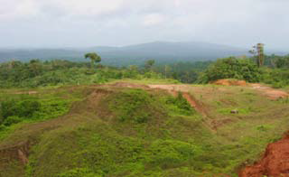 The Camp Caiman gold mining area in the north east of French Guiana